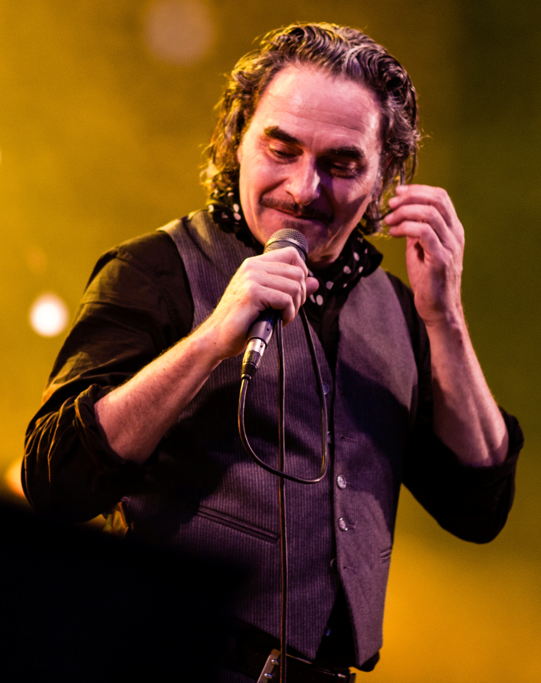 Follow me on facebook Twitter : @didyPhotography All the photographies I've made are now under CC0 (Creative Commons Zero) CC0 - learn more To the extent possible under law, Eddy BERTHIER has waived all copyright and related or neighboring rights to Stephan Eicher @ Bsf 2012. This work is published from: France.